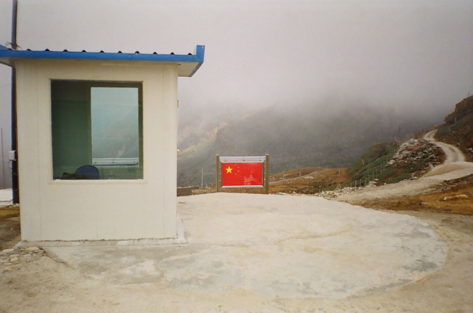 Chinese Military Post in Nathu La